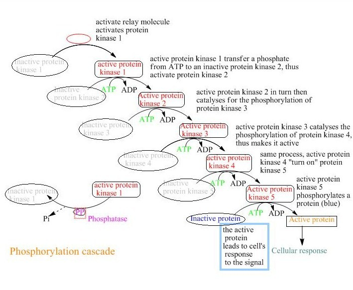 different enzymes are phosphorylated in turn.